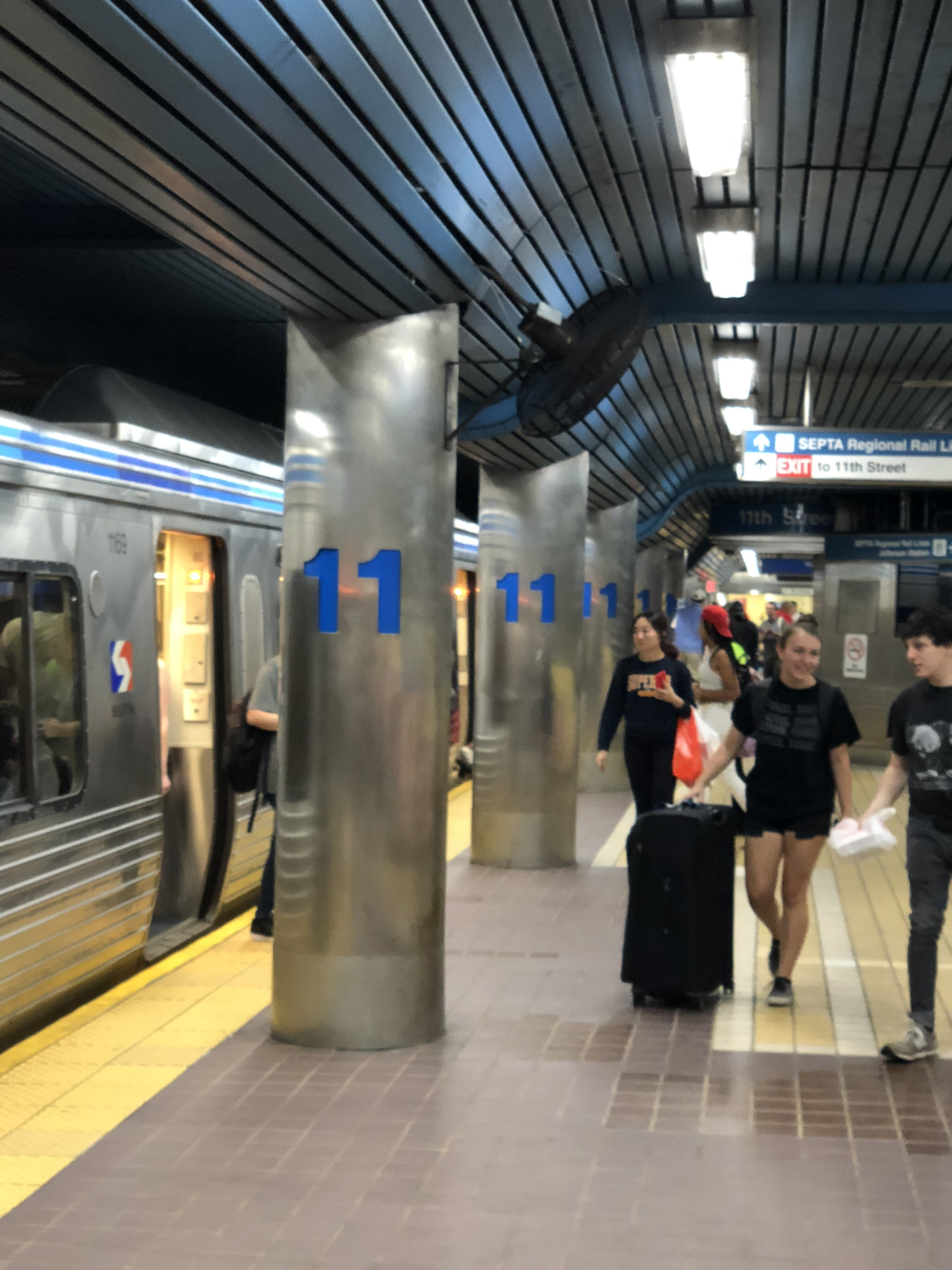 11th Street Station